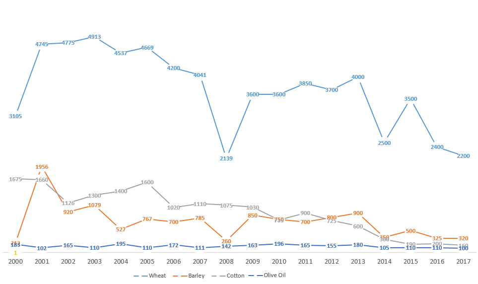 Syrian Republic Commodity Production by Year